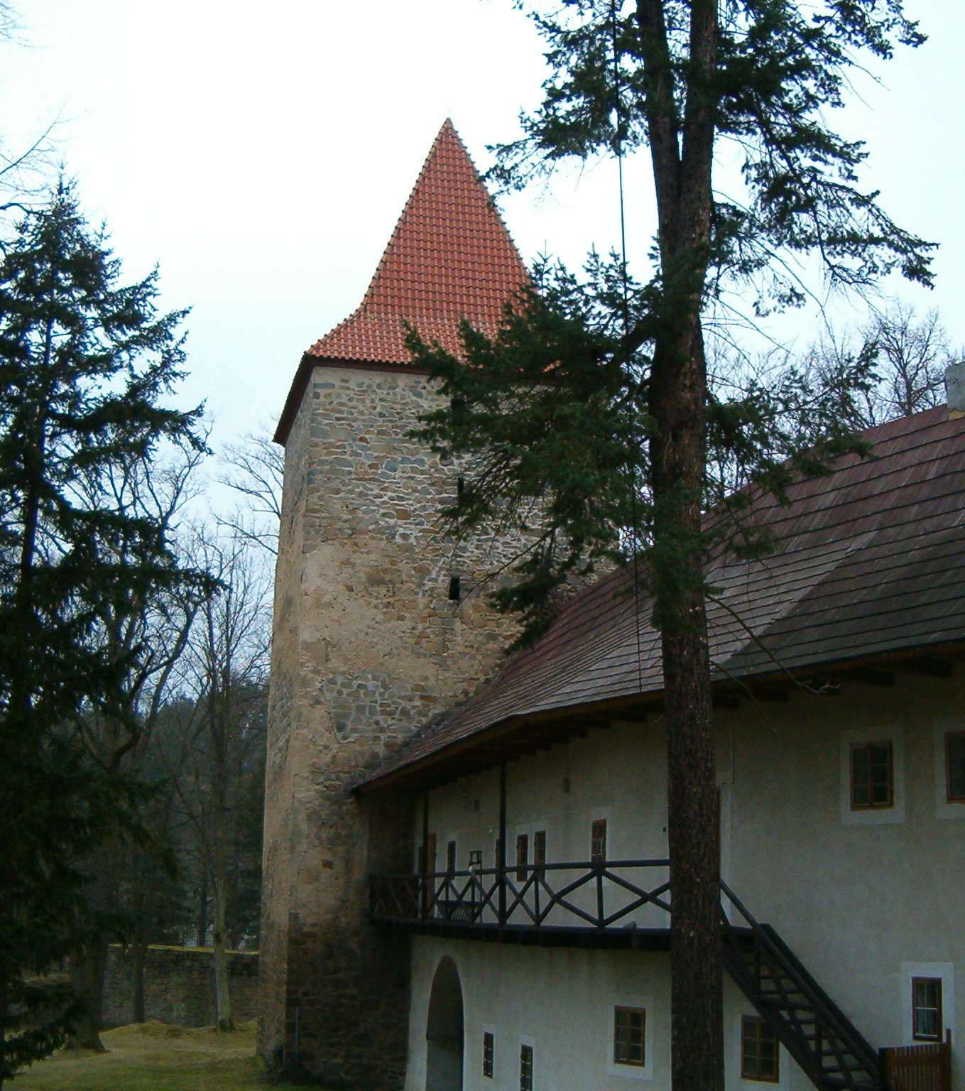 Castle Zvíkov, South Bohemia region, Czech Republic